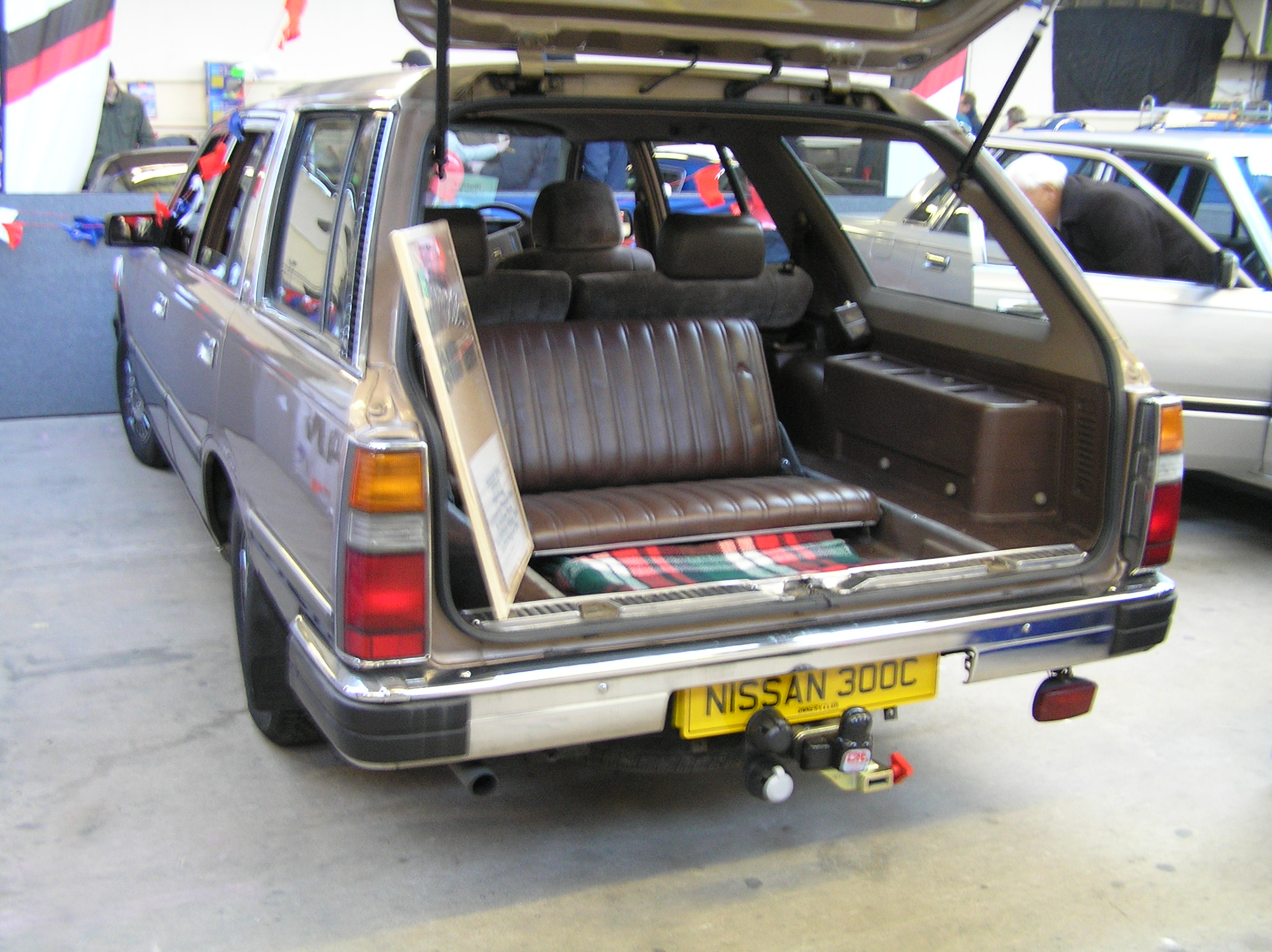 Nissan 300C estate, view of the boot, photographed in the UK